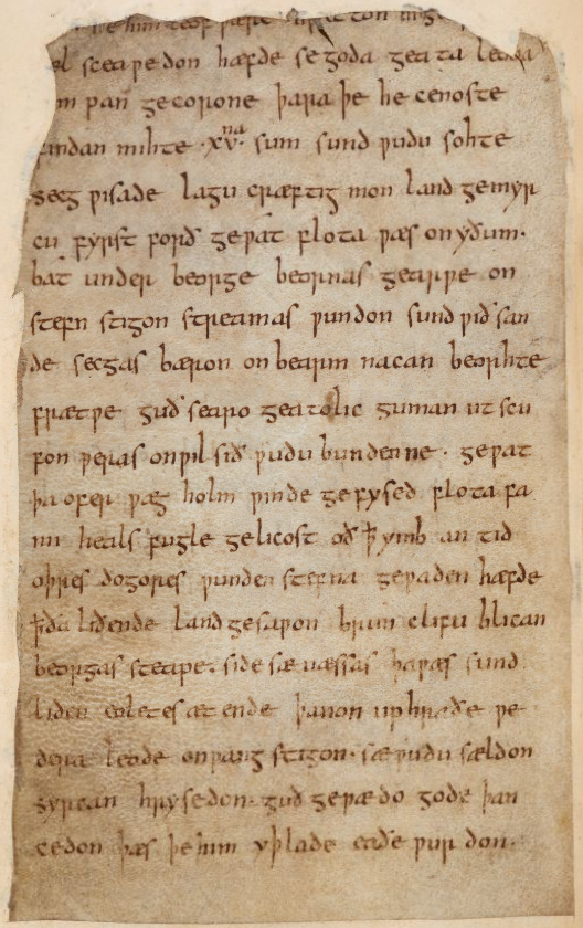 Folio 137r of the heroic epic poem Beowulf, written primarily in the West Saxon dialect of Old English. It contains part of section III, lines 205-228 of the poem; J.R.R. Tolkien used lines 210-228 in his essay "On Translating Beowulf". Part of the Cotton MS Vitellius A XV manuscript currently located within the British Library. This is a digital photographic copy of the folio.